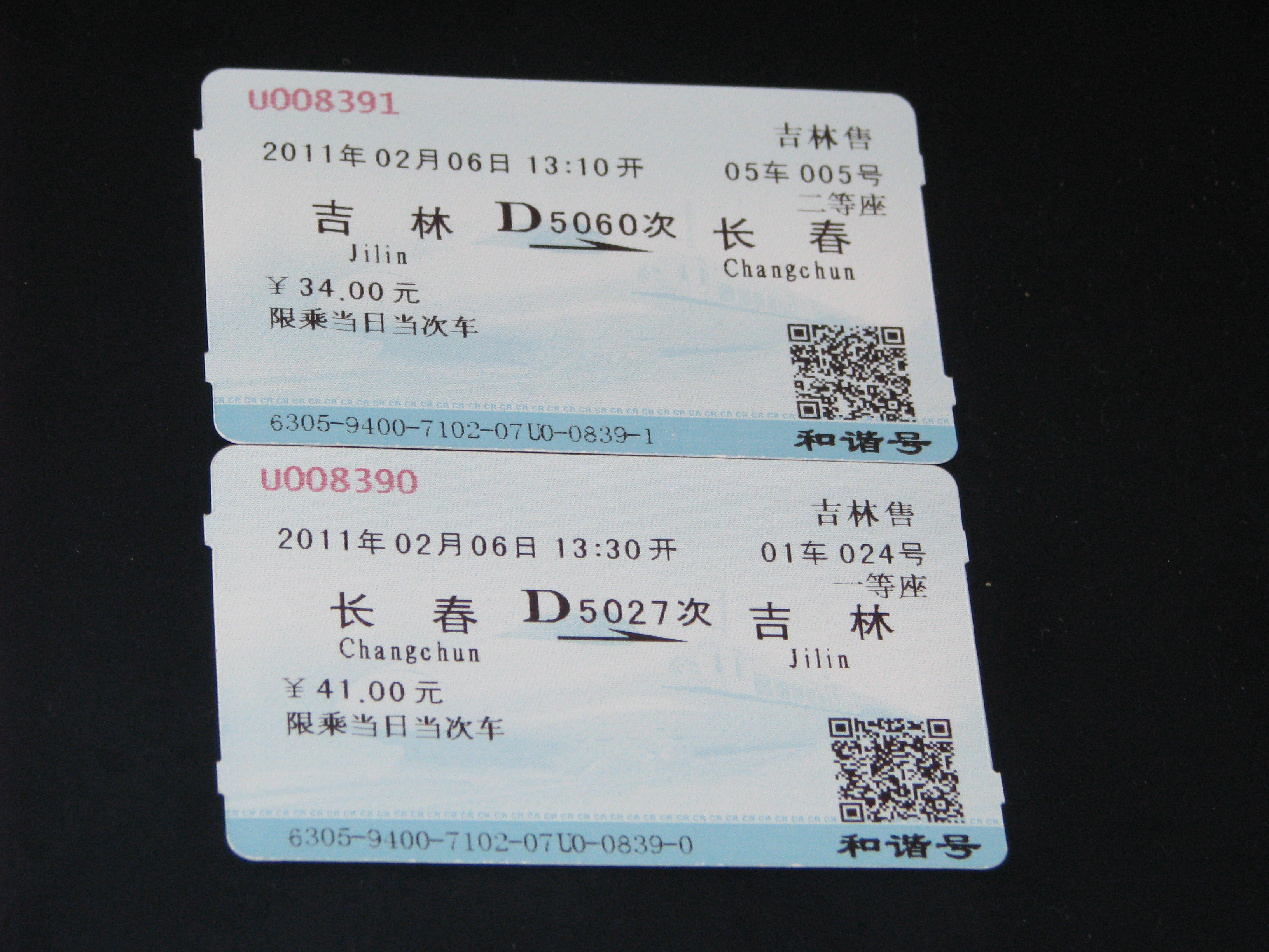 ticket of Changchun–Jilin Intercity Railway